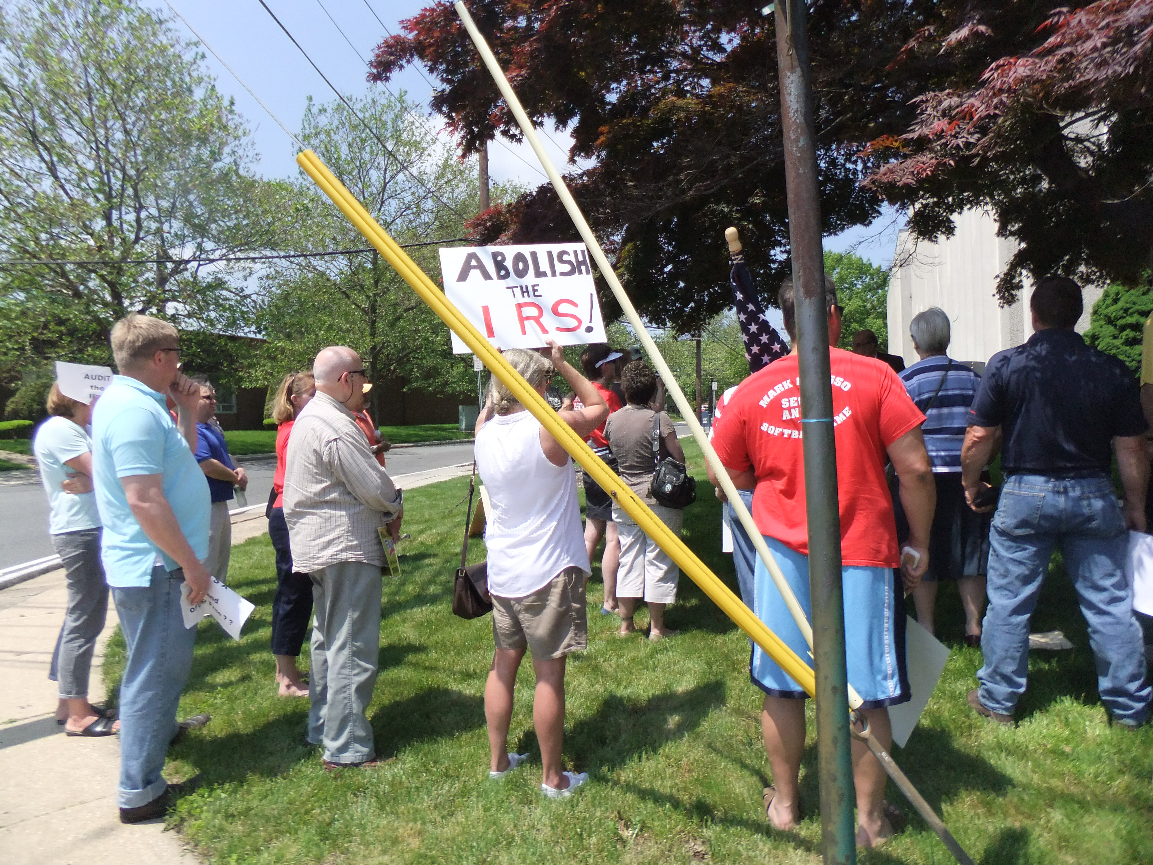 Protesters at IRS facility at the Diamondhead Building near Route 22 at Mountainside, New Jersey, on May 21, 2013, protesting IRS targeting of conservative groups.